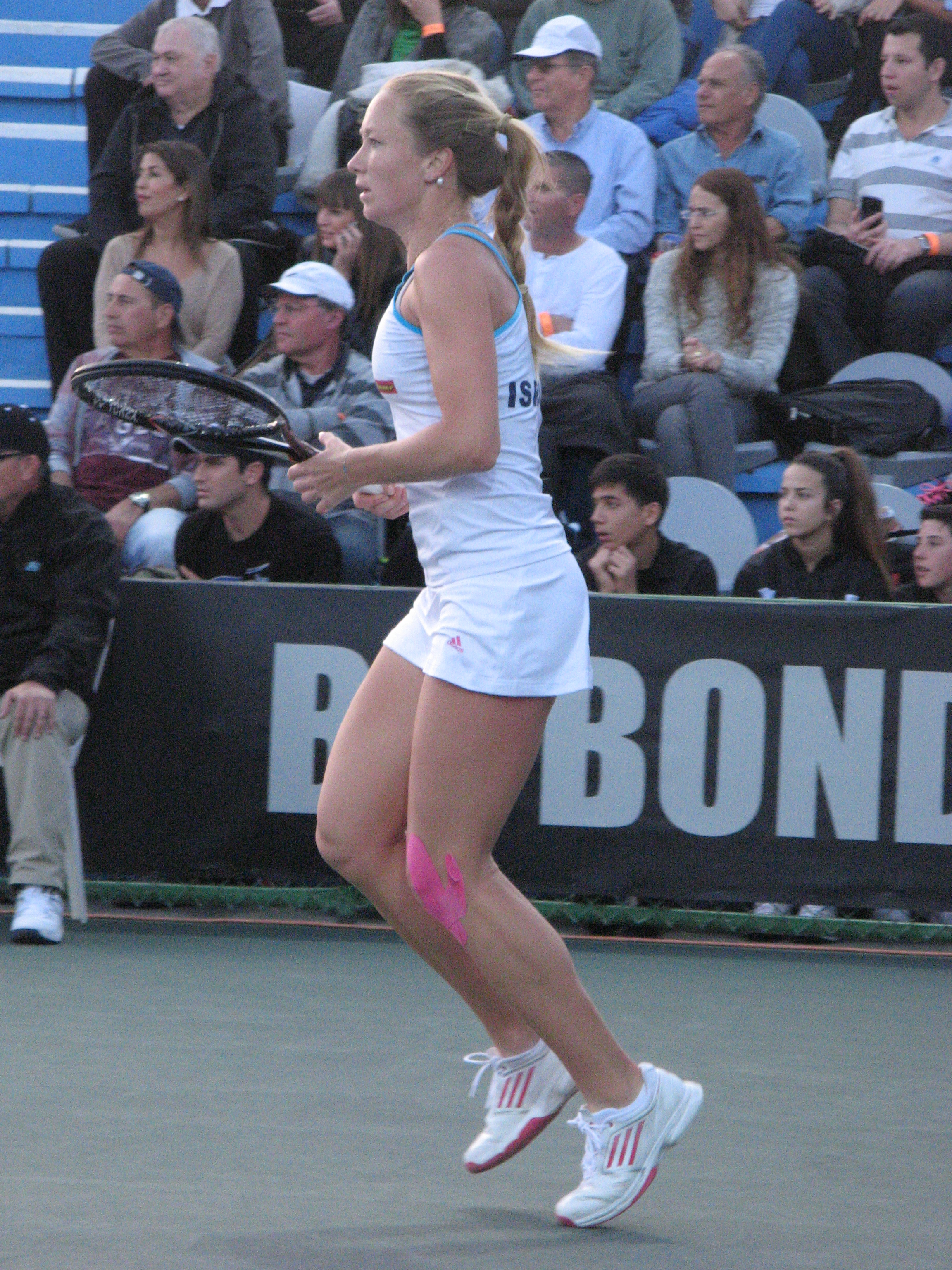 The tennis player Julia Glushko of Israel during her match against Cristina Dinu of Romania in the 2nd day of Fed Cup Group I 2013 Europe/ Africa in Eilat, Israel